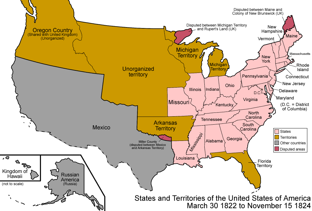 Map of the states and territories of the United States as it was from 1822 to 1824. On March 30 1822, the two Floridas were organized as Florida Territory. On November 15 1824, Arkansas Territory shrank, the western portion becoming unorganized.